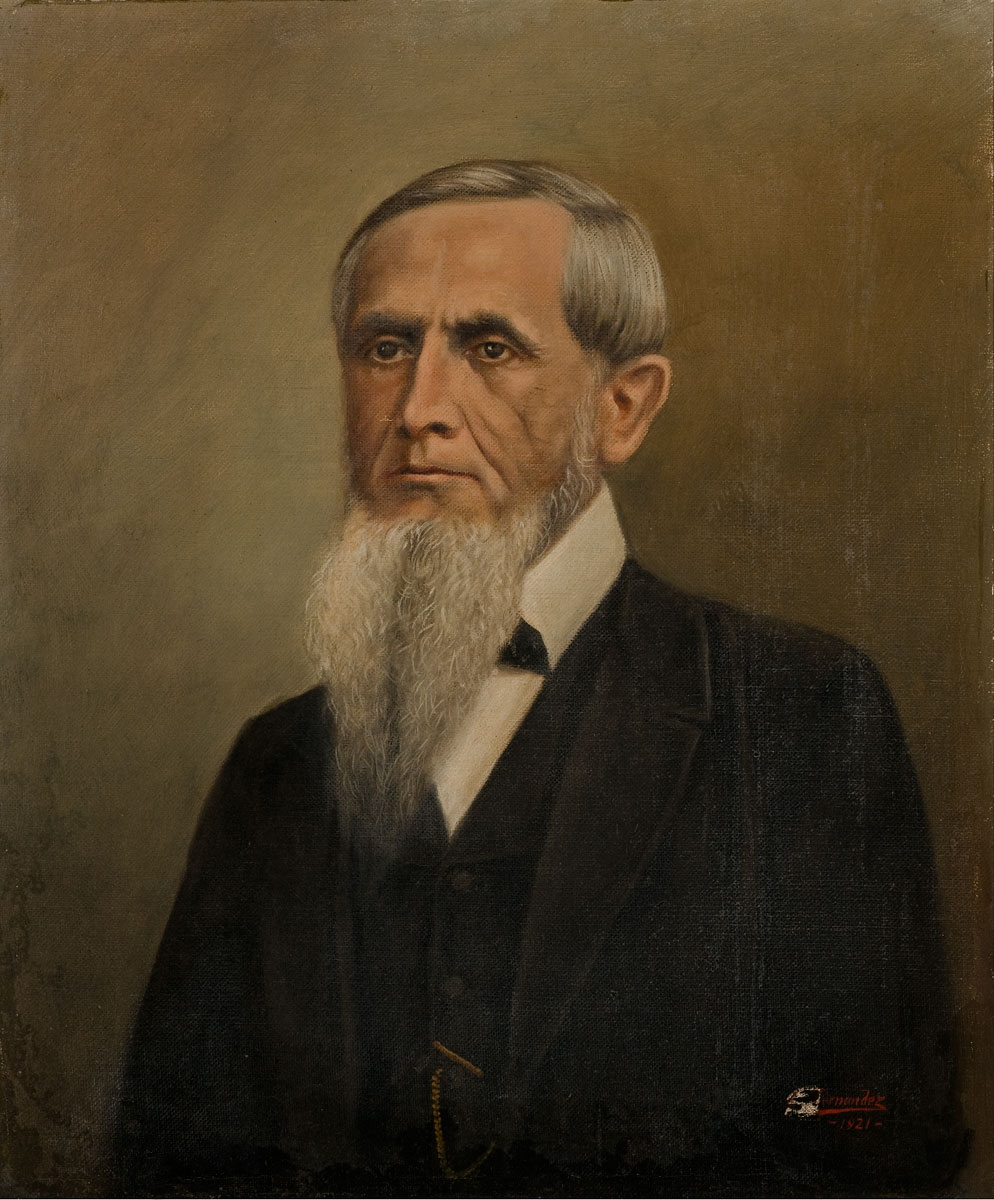 Color portrait of Manuel Z. Gómez (1813-1871), governor of Nuevo León, Mexico. Oil on canvas (76.5 x 66.5 cm)